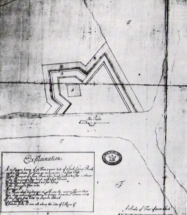 Plan of Col John Barnwell's Fort King George, c. 1722